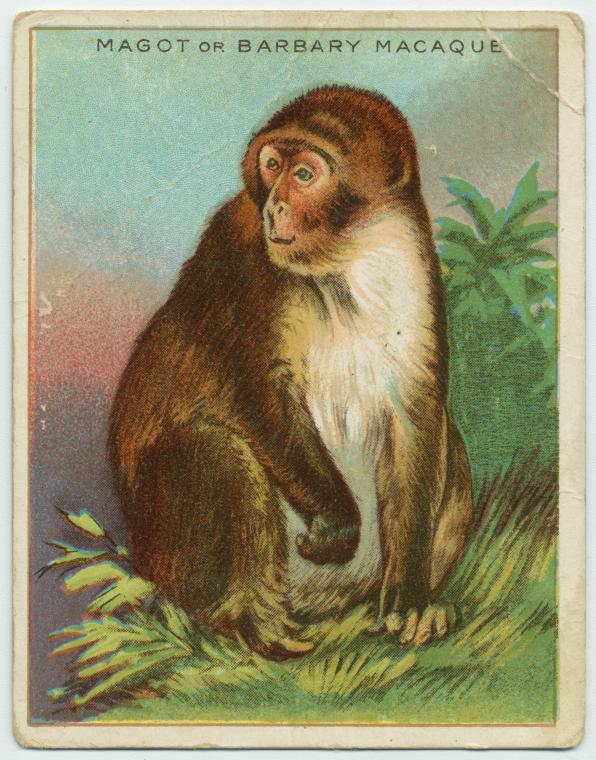 Magot or Barbary Macaque